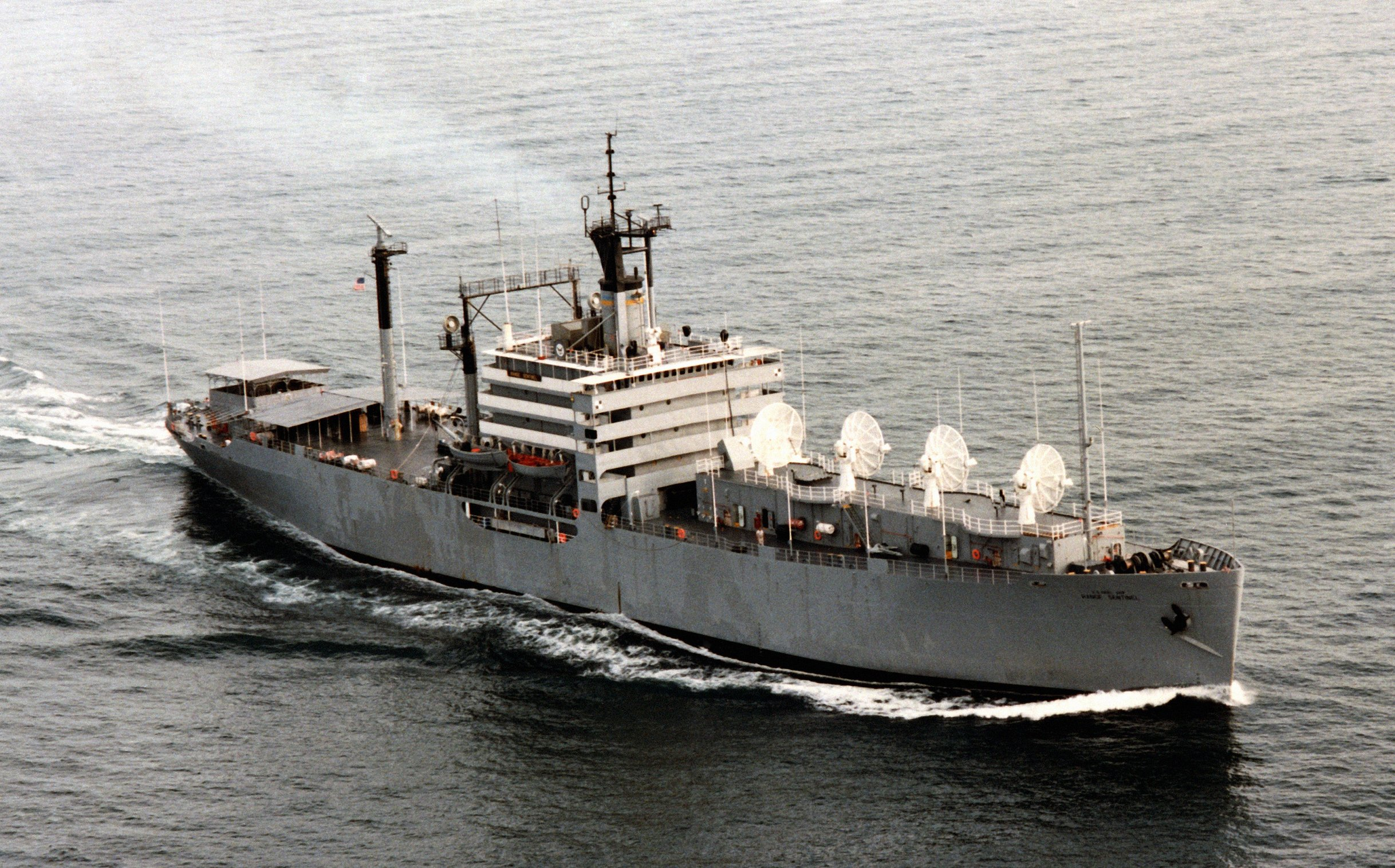 USNS Range Sentinel (T-AGM-22), a Victory class missile range instrumentation ship, underway.